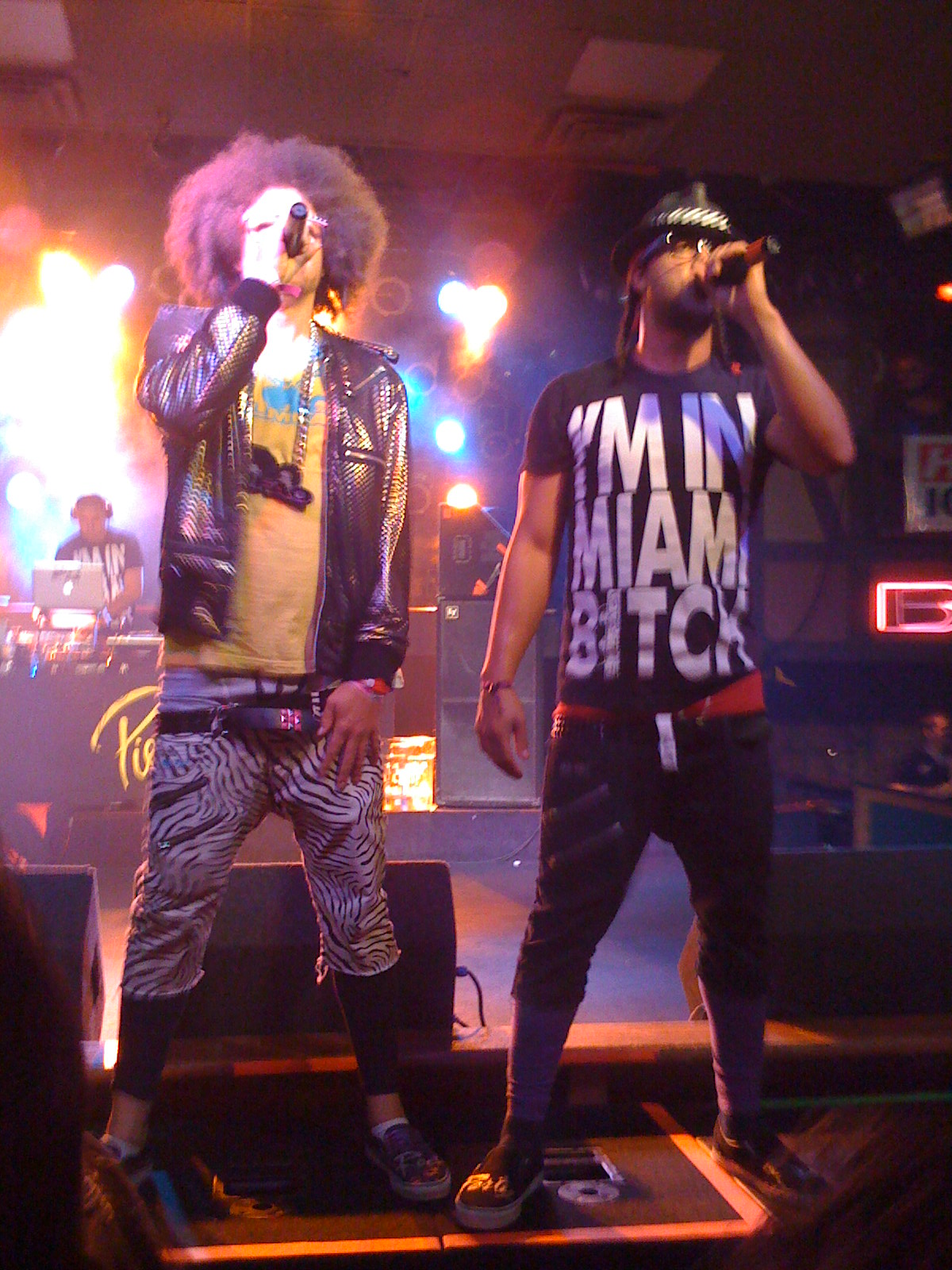 LMFAO - Redfoo (on the left) & Sky Blu (on the right) – performing at Free Show 3.0 @ Piere's in Fort Wayne, Indiana